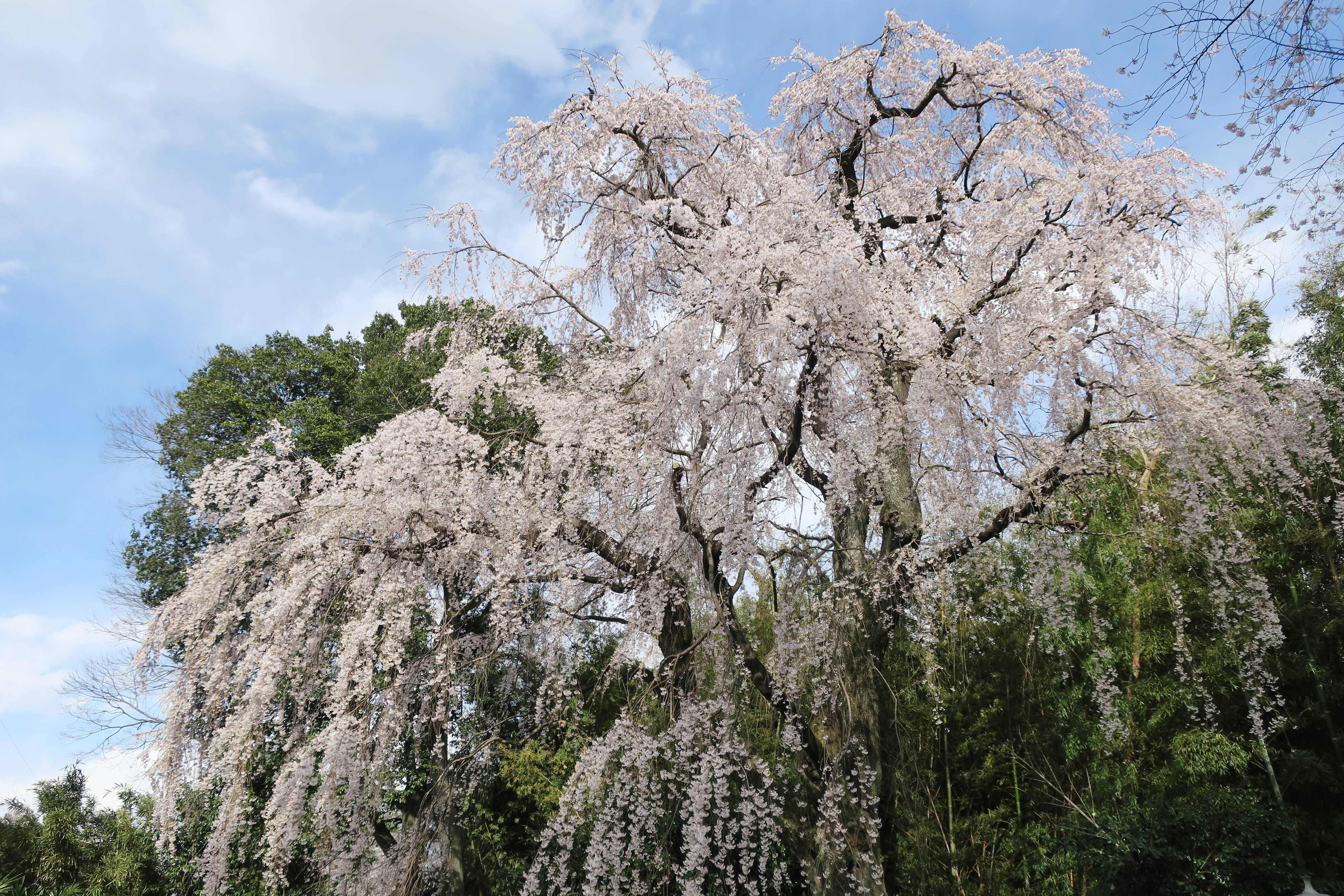 Tanomoshi no Shidarezakura.